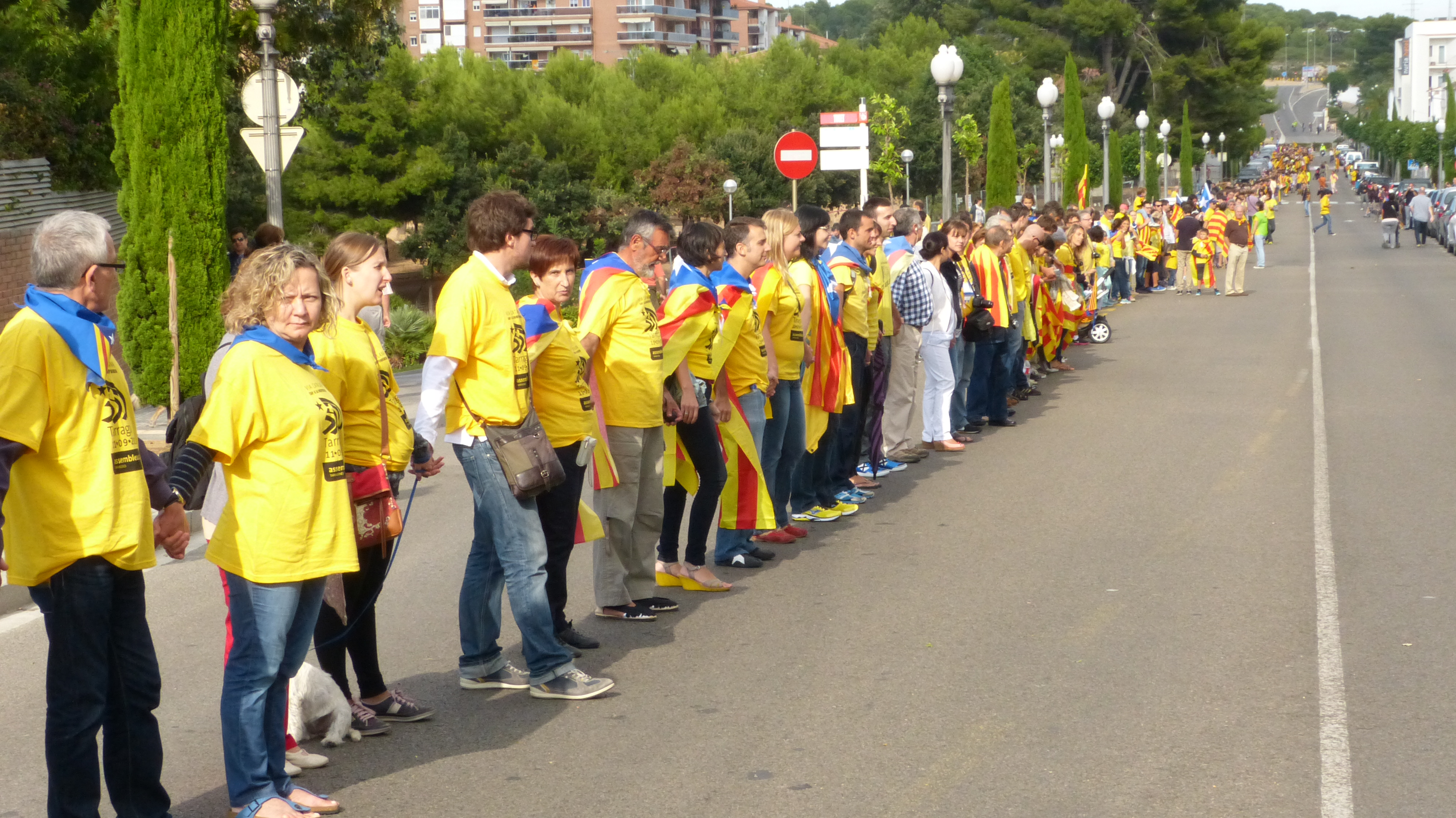 Section number 235 of the human chain organized by the ANC (Catalonia's National Assembly) to claim Catalonia's independence. Celebrated on september the 11th of 2013.